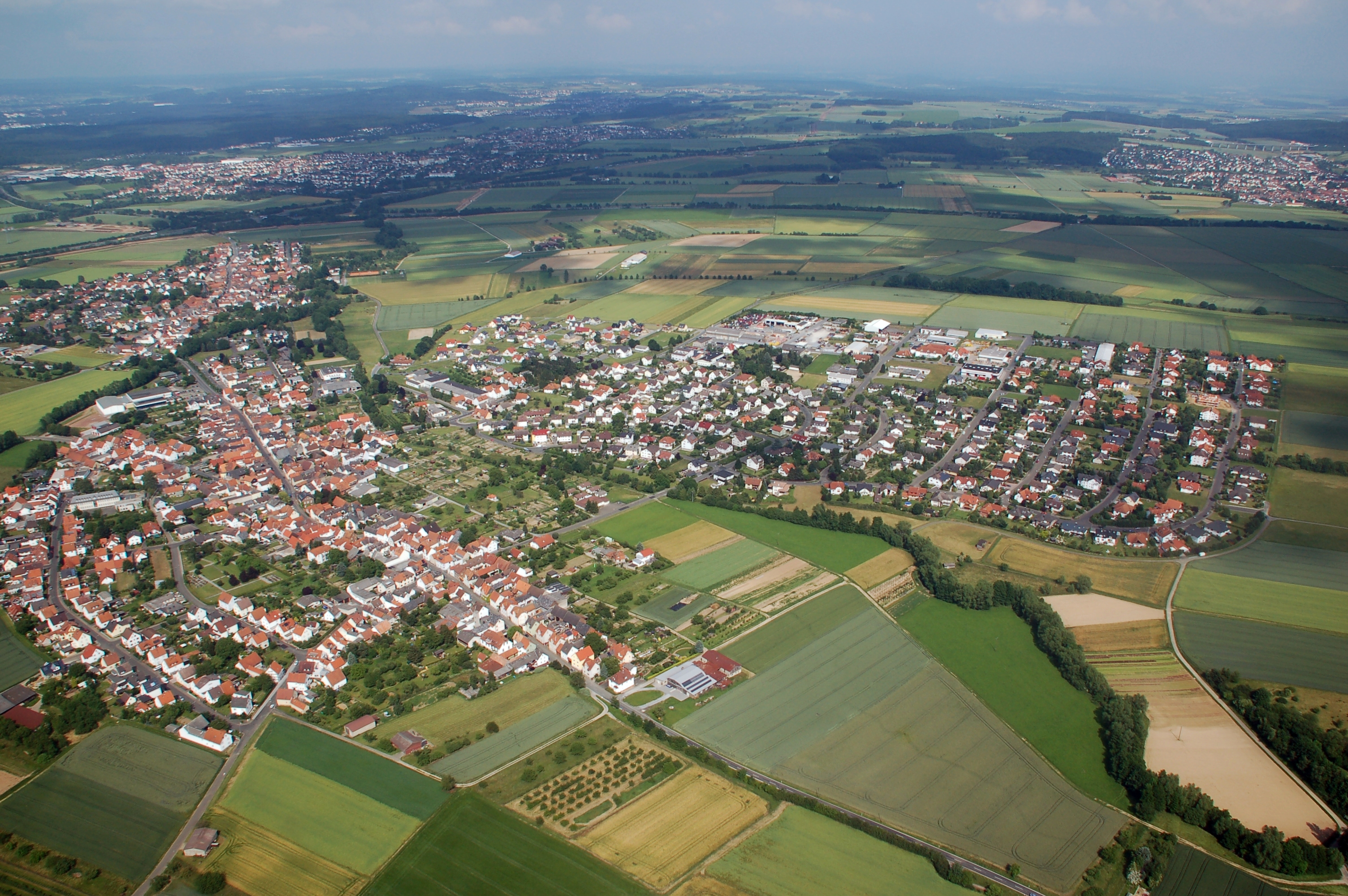 Aerial photograph of Hüttenberg, Hessen, Germany